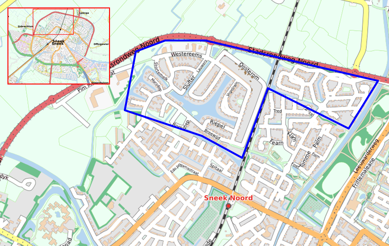 Own reproduction of OpenStreetMap. De Loten-neighbourhood Sneek.